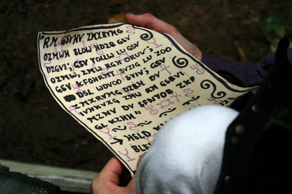 more information on our group: - please include a link to our website in any re-use, thanks.